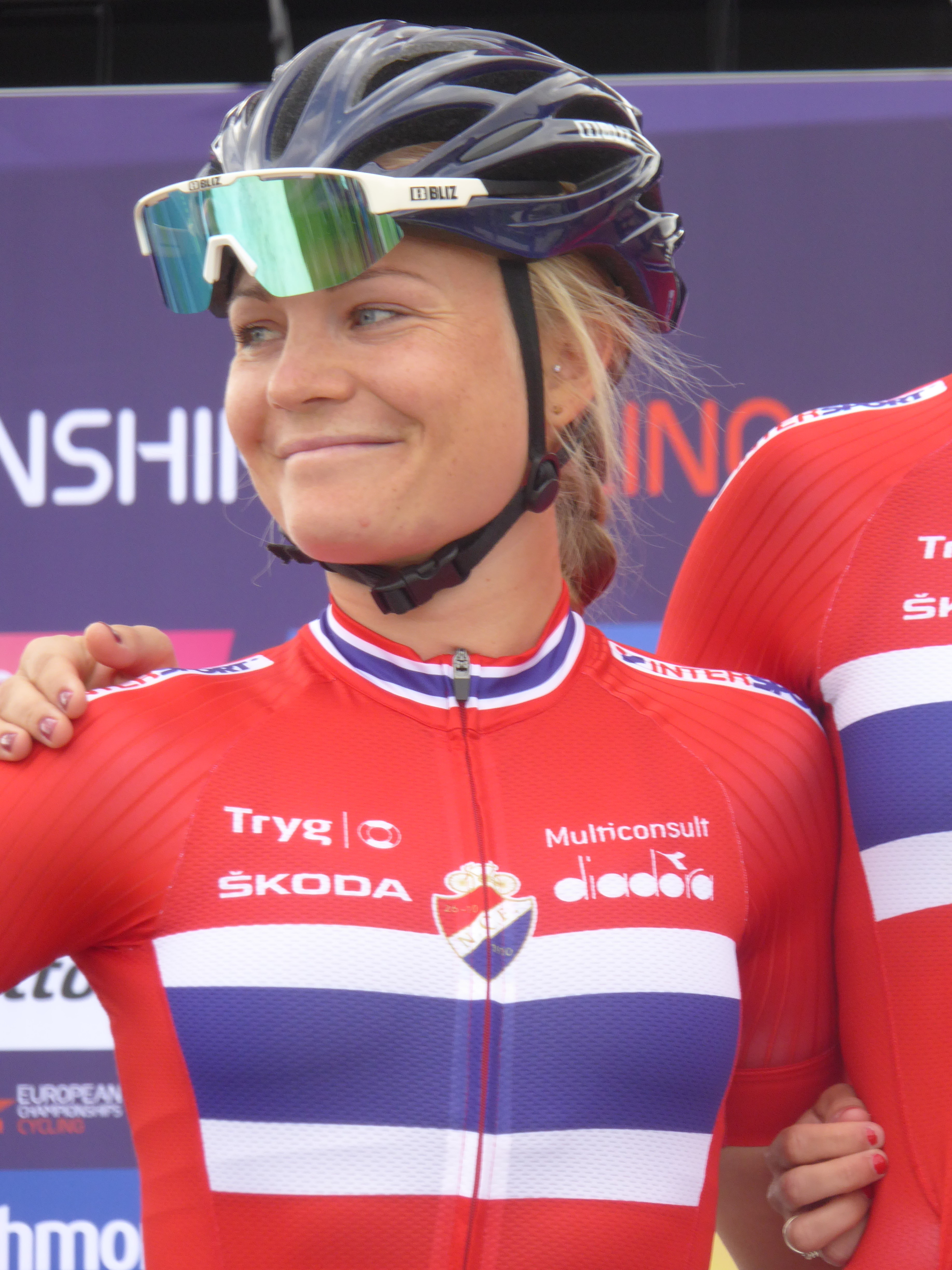 Emilie Moberg (Norway), prior to the women's road race at the 2018 UEC European Road Cycling Championships in Glasgow.